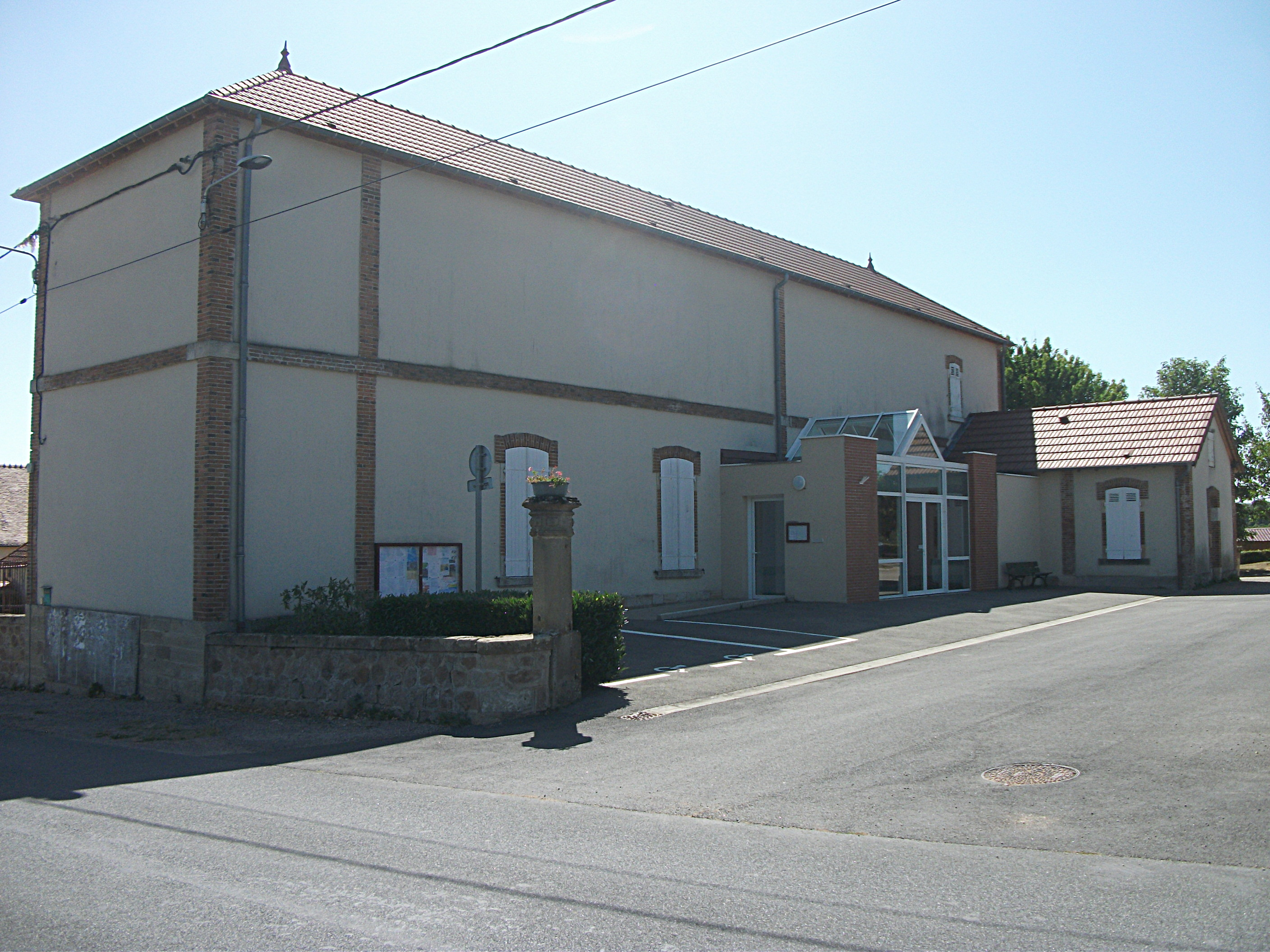 Town hall (and Salle Polyvalente) of Blomard, Allier, Auvergne-Rhône-Alpes, France. [18981]